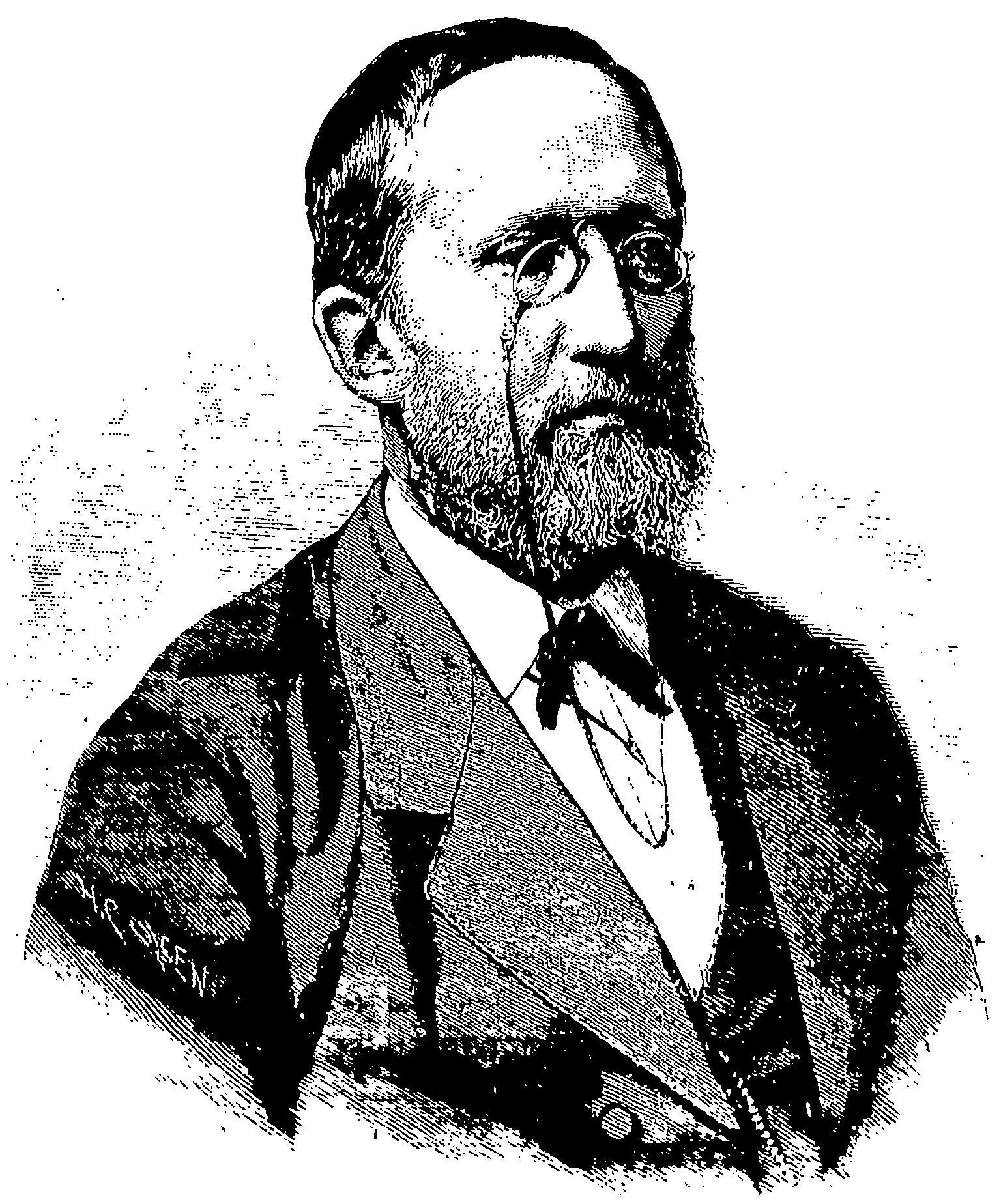 The Norwegian philosopher Georg Vilhelm Lyng.